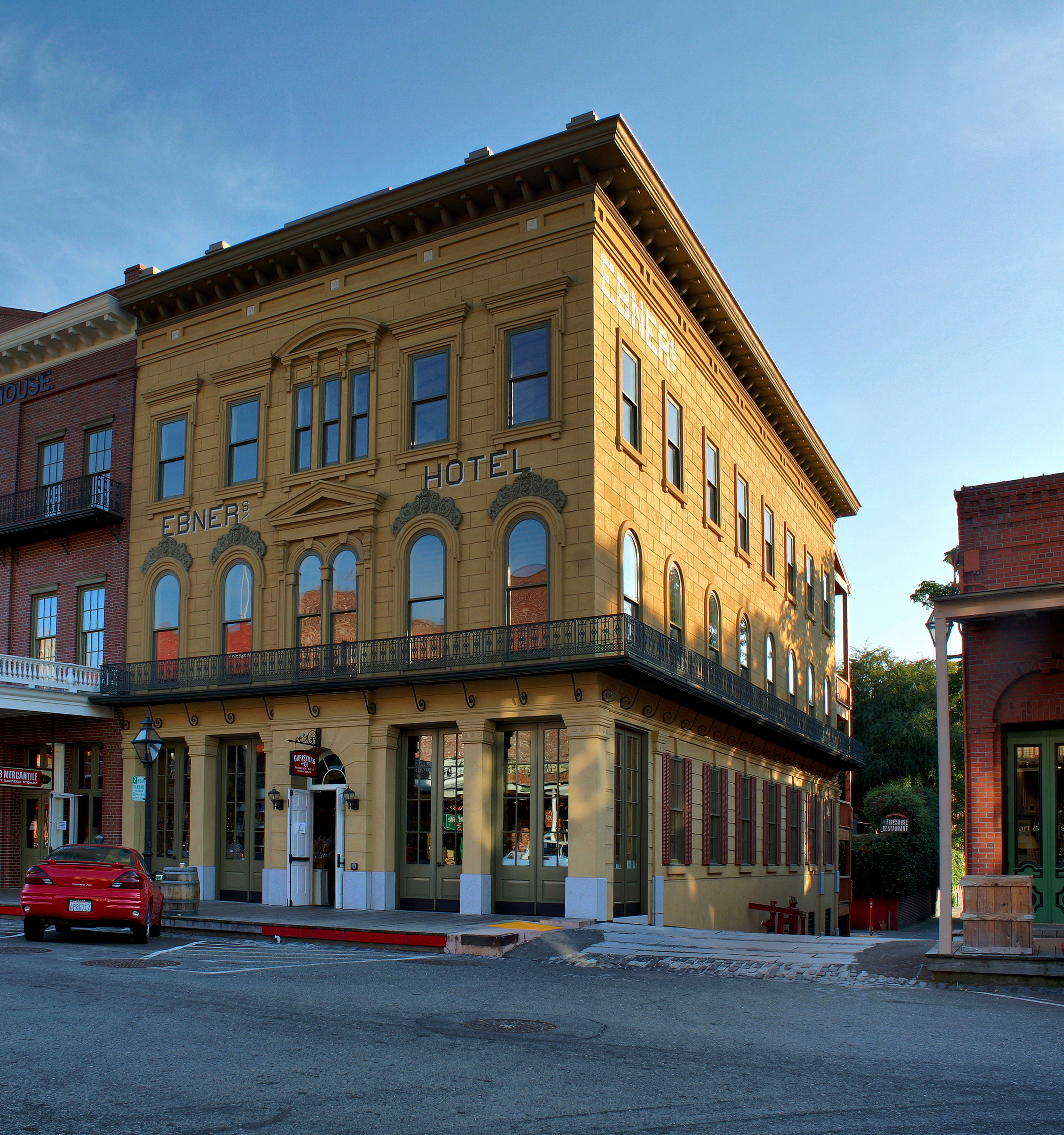 From Flickr: "Ebner's Hotel HDR Stitch Three exposures each of two camera positions" Front of Ebner's Hotel